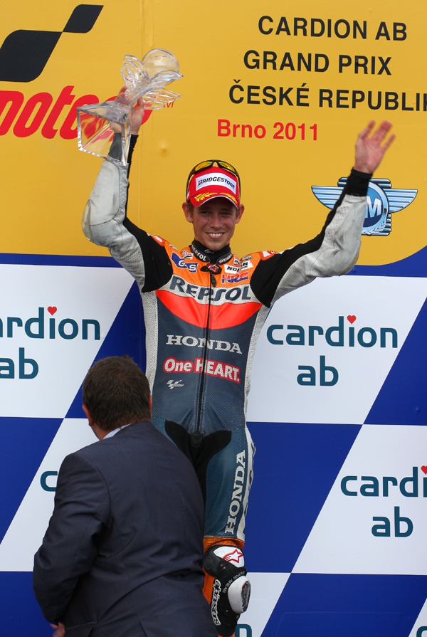 Casey Stoner 2011 Brno